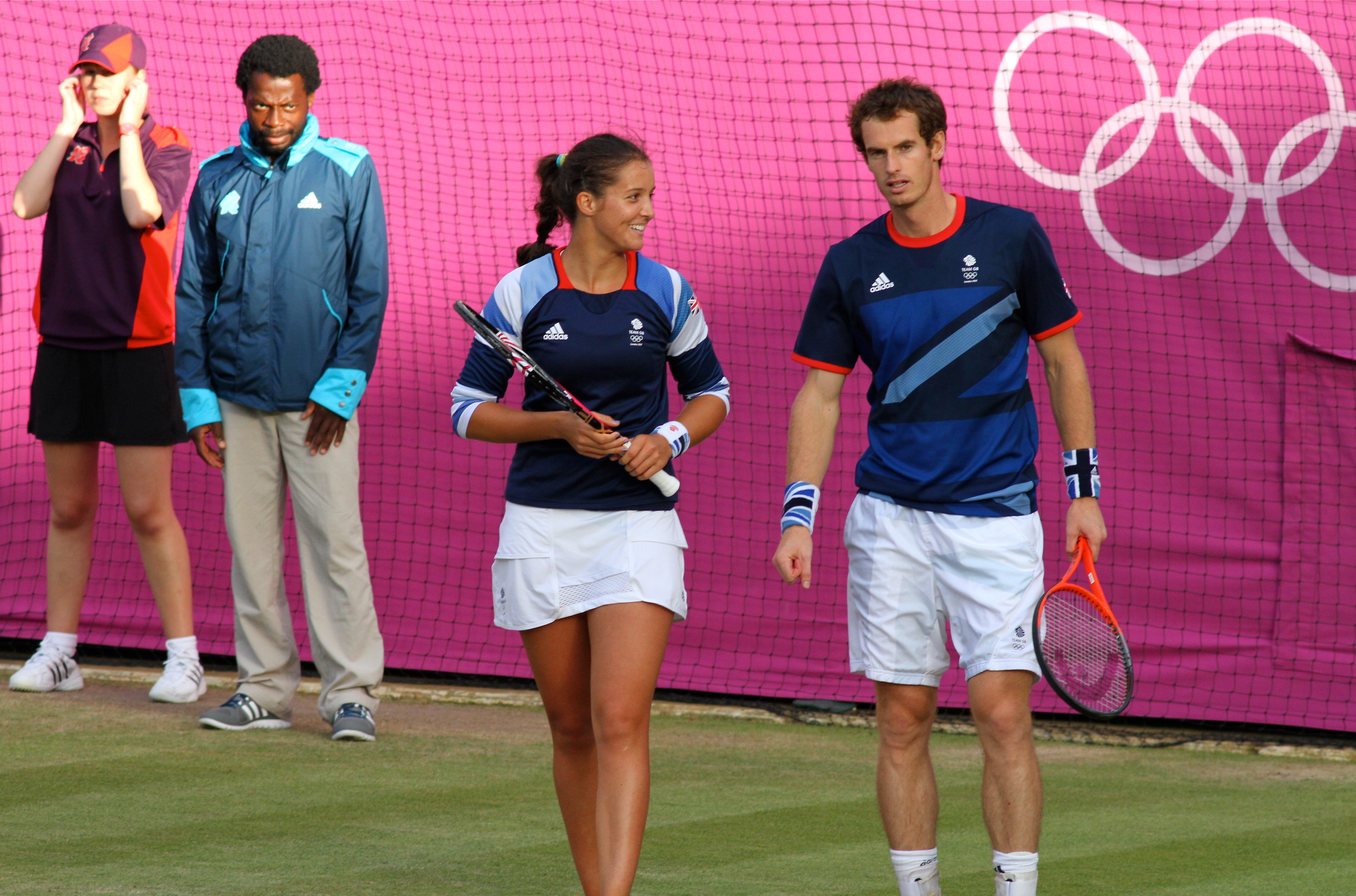 Andy Murray and Laura Robson in mixed doubles at Wimbledon, London 2012 Olympics on 3 August 2012.